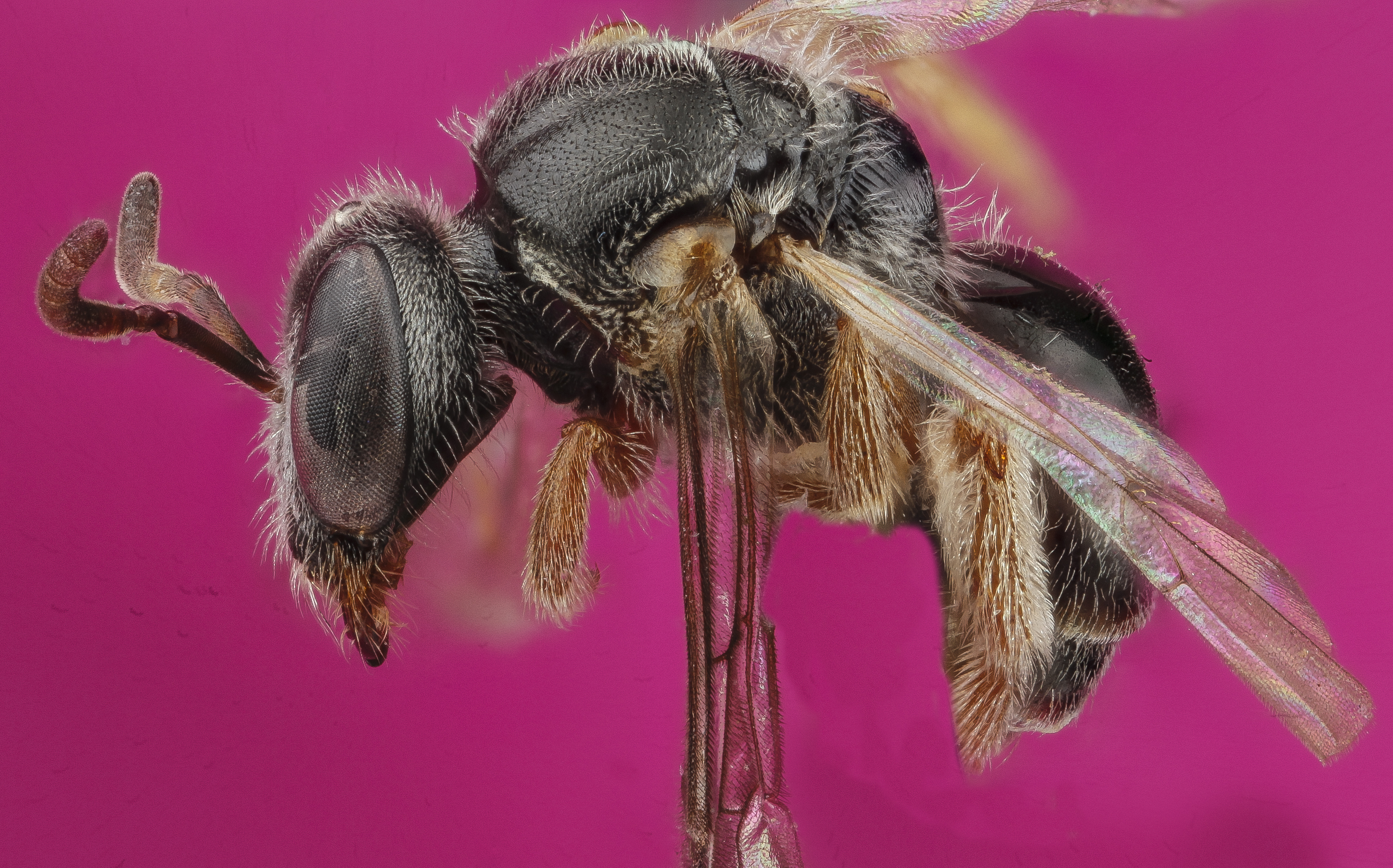 Lasioglossum birkmanni, female, Big Thicket National Preserve, Texas